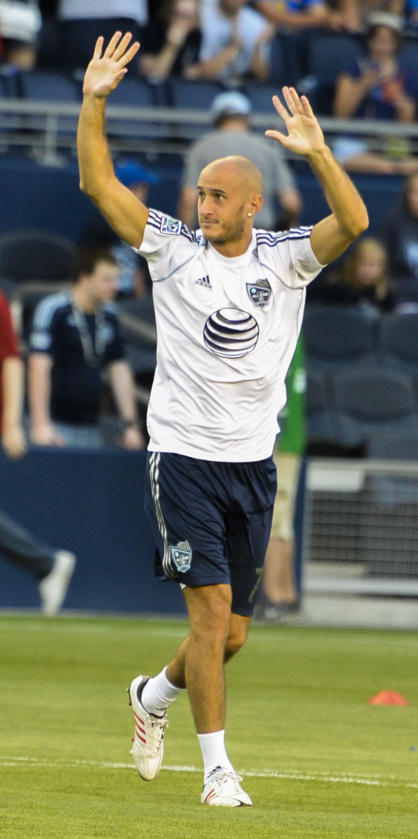 Aurelien Collin, Sporting KC Defender, warming up at the MLS All Star game at Sporting Park, Kansas City, Kansas on July 31st, 2013.